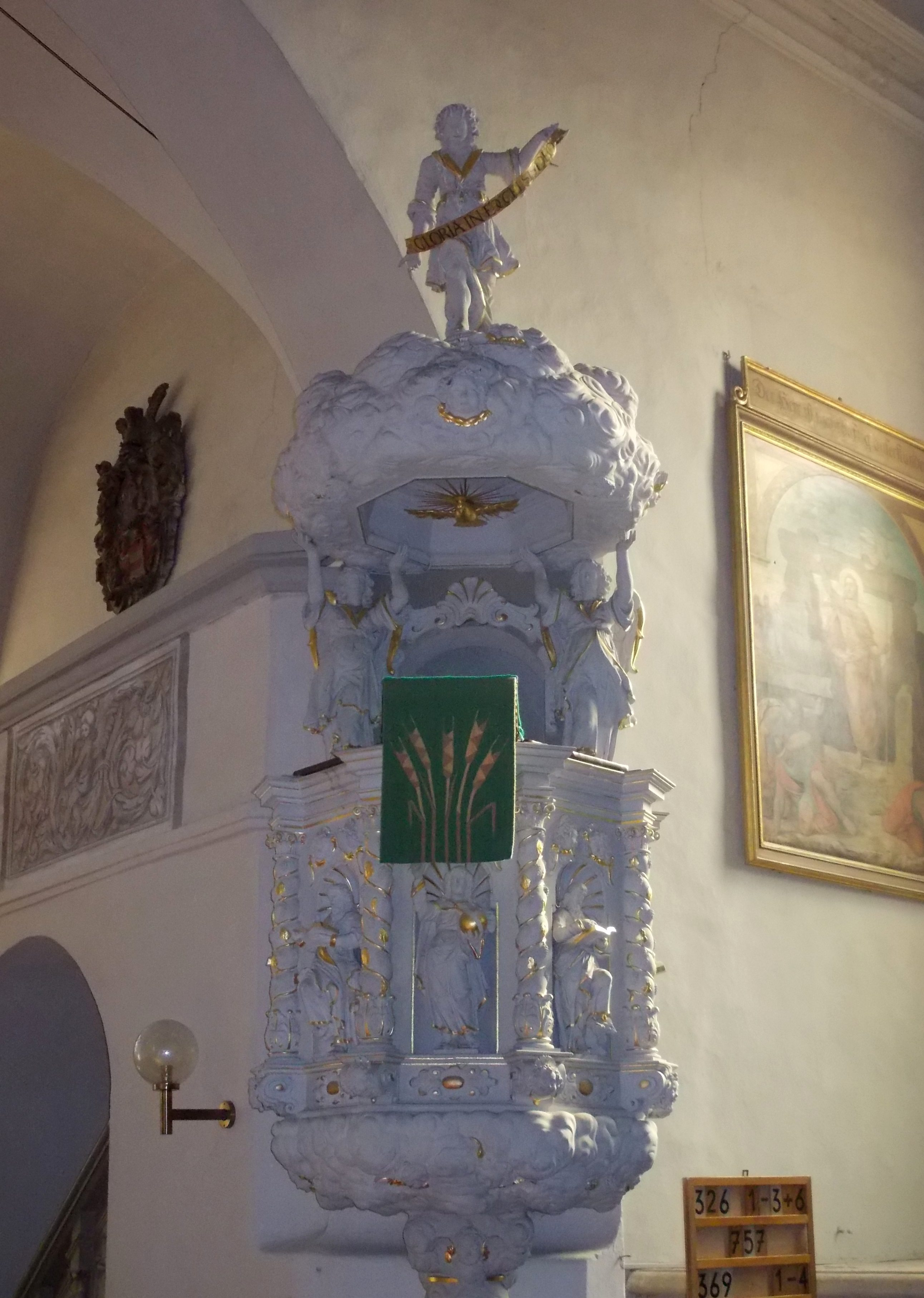 St. Nicholas' Church in Pretzsch (Bad Schmiedeberg, Wittenberg district, Saxony-Anhalt)